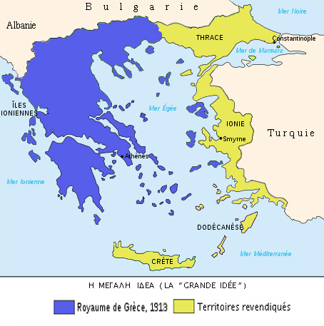 Claims of Greece: the Megali Idea, 1919.jpg